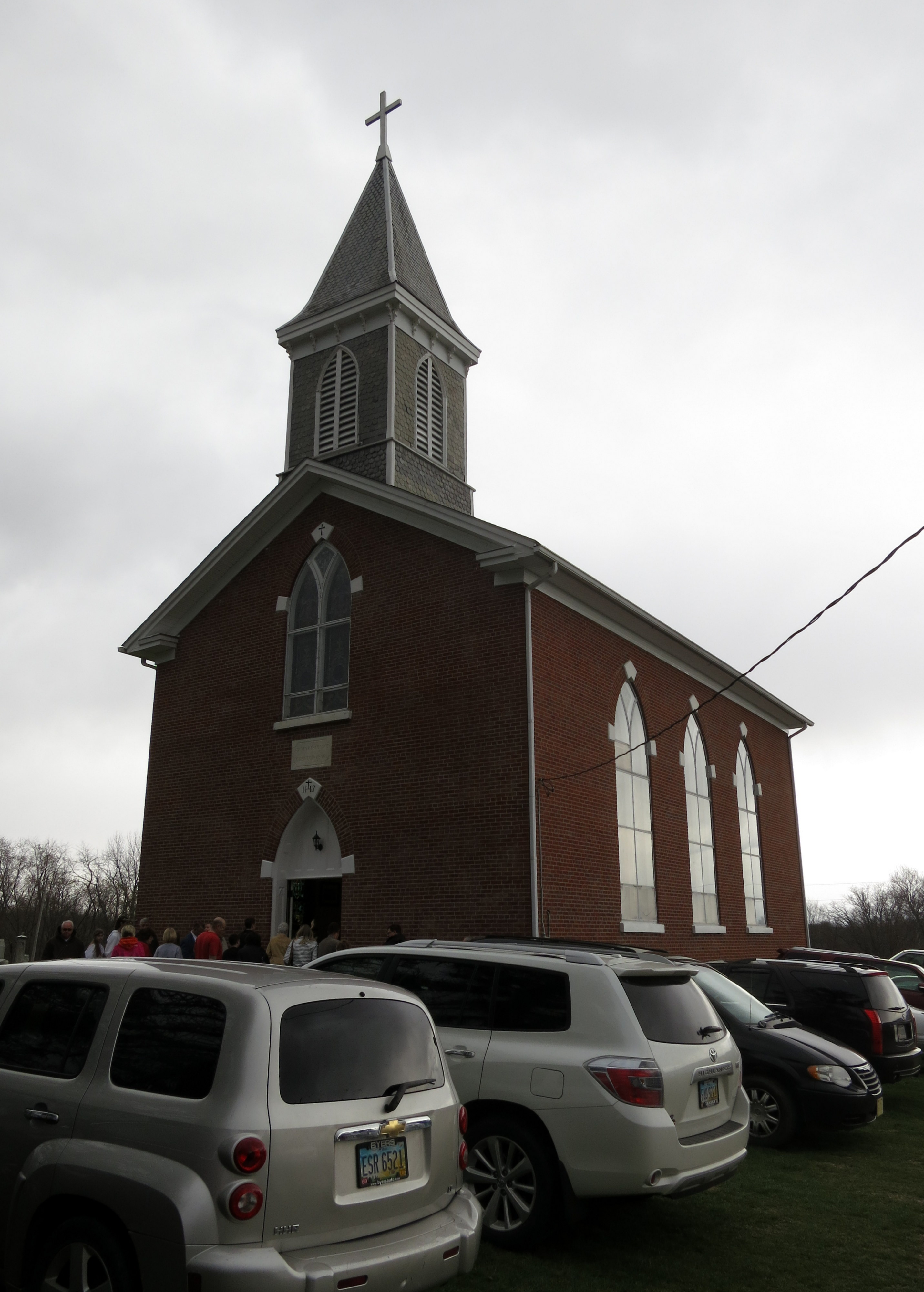 Church of the Nativity of the Blessed Virgin Mary (Mattingly Settlement, Ohio) - exterior 2